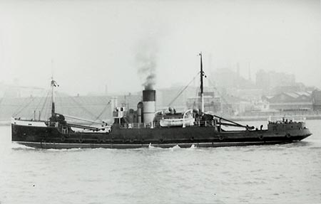 Peveril (II).